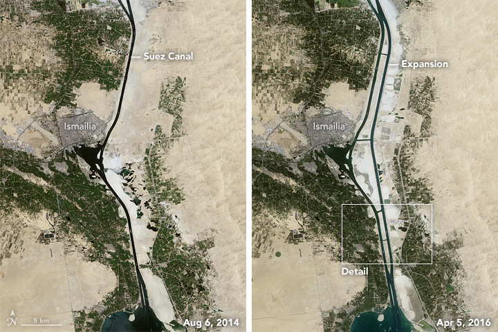 Satellite view: The Suez Canal in August 2014 (left), The Suez Canal and the New Suez Canal in April 2016 (right).